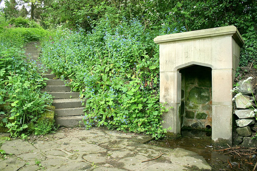 Holy Well Kings Newton, Derbyshire from brook